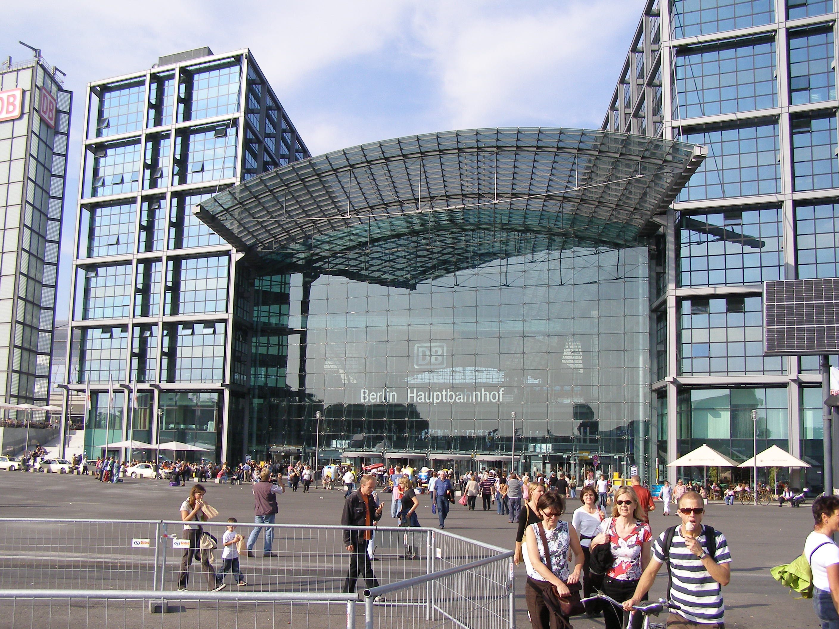 Berlin Main Station